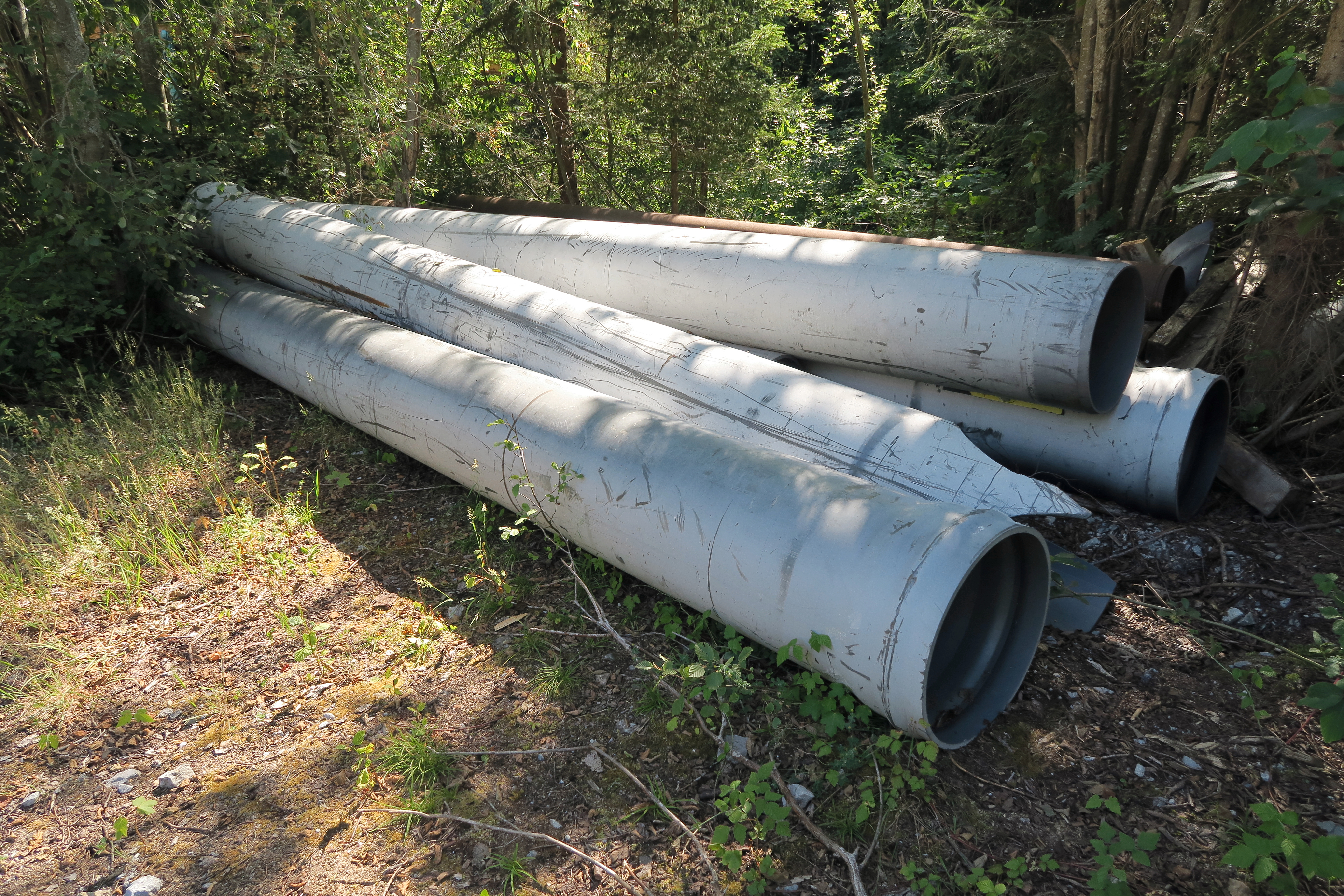 Cast iron pipes as a remnant of the reconstruction of the plant. Switzerland, July 15, 2015. (8/11)